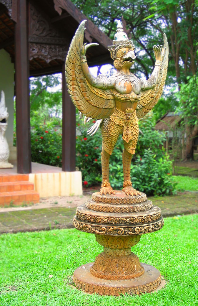 Statue of Garuda in Wat Chang Kham, Chiang Mai, Thailand.